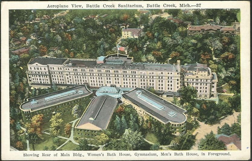 Airplane View, Battle Creek Sanitarium, Michigan, color postcard. Depicted are: Rear of Main Building, Women's Bath House, Gymnasium, Men's Bath House, The Willard Library collection